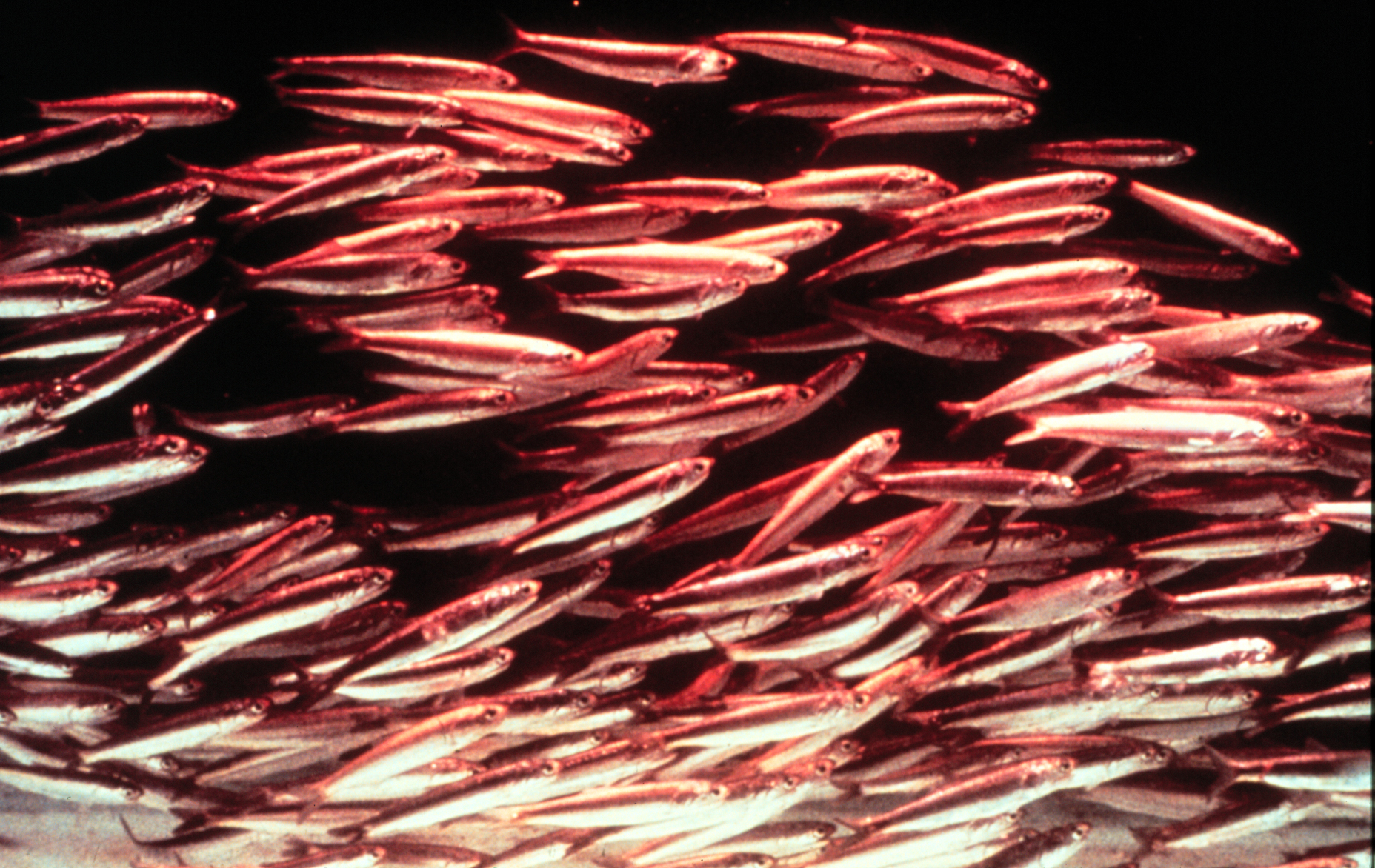 A school of Californian anchovies, Engraulis mordax. Image ID: nur00008, National Undersearch Research Program (NURP) Collection Location: Pacific Ocean. Credit: OAR/National Undersea Research Program (NURP) Downloaded from